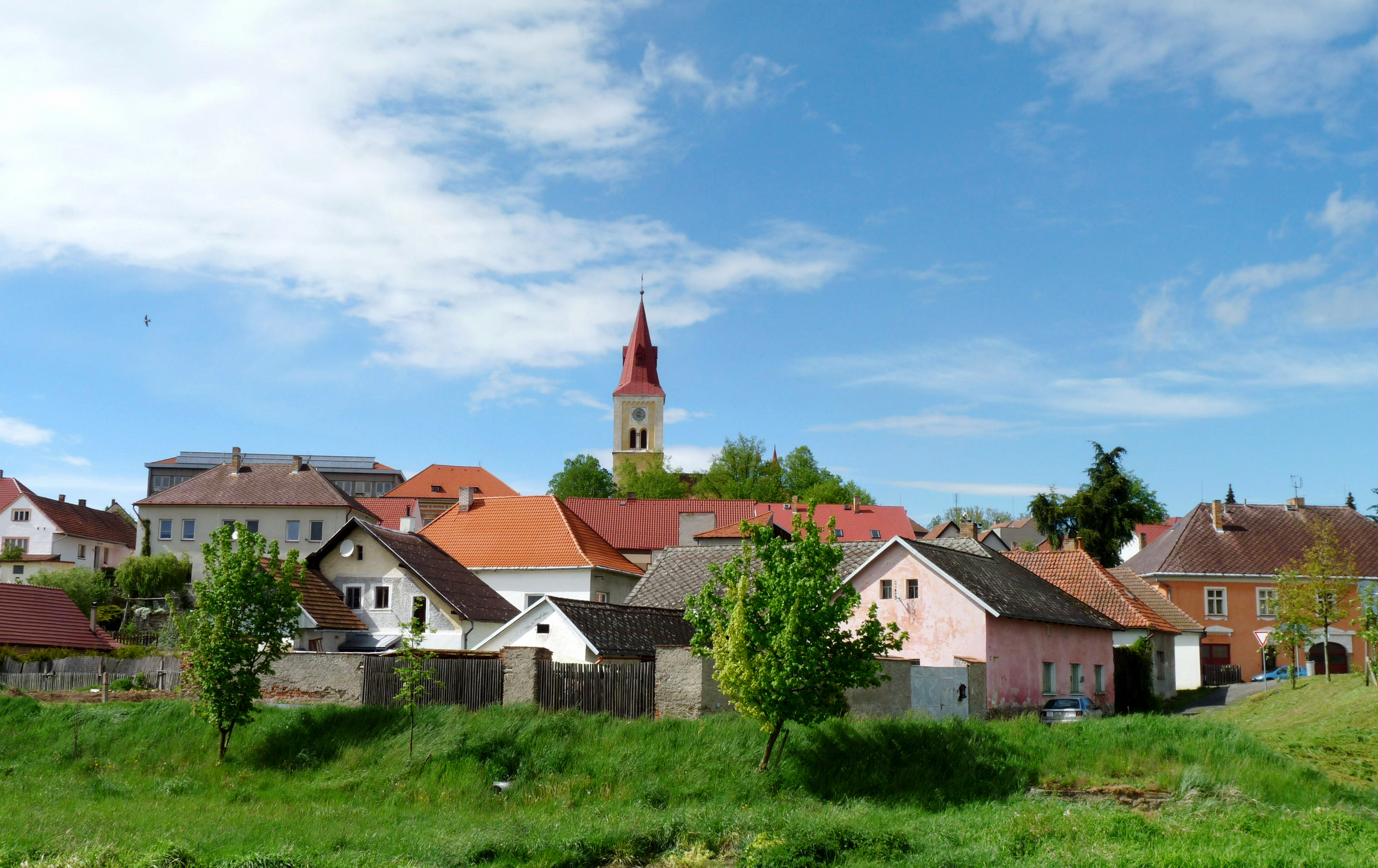 Municipality of Hořepník, Pelhřimov District, Vysočina Region, Czech Republic as seen from the south-east.